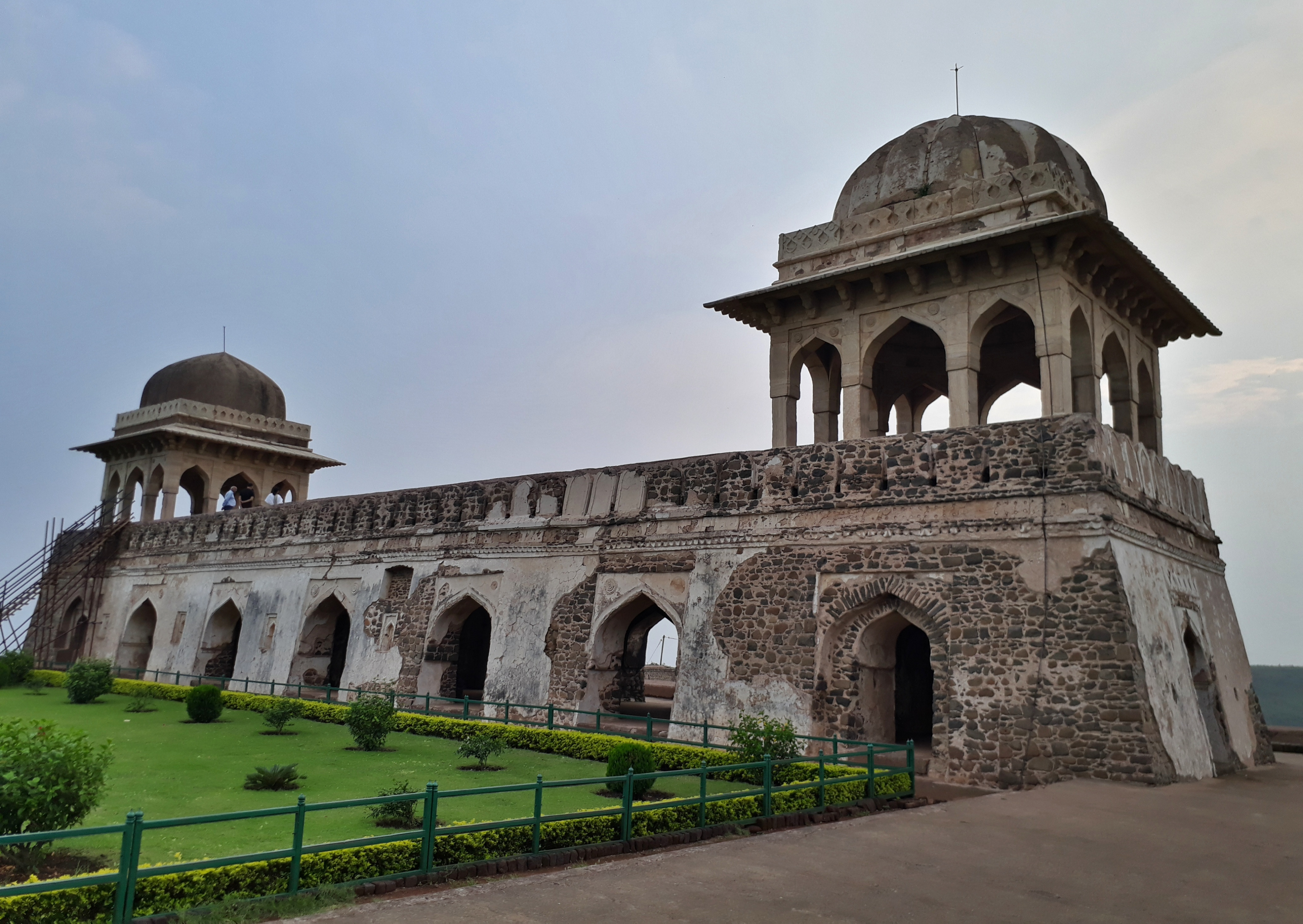 Rani Rupmati Mahal